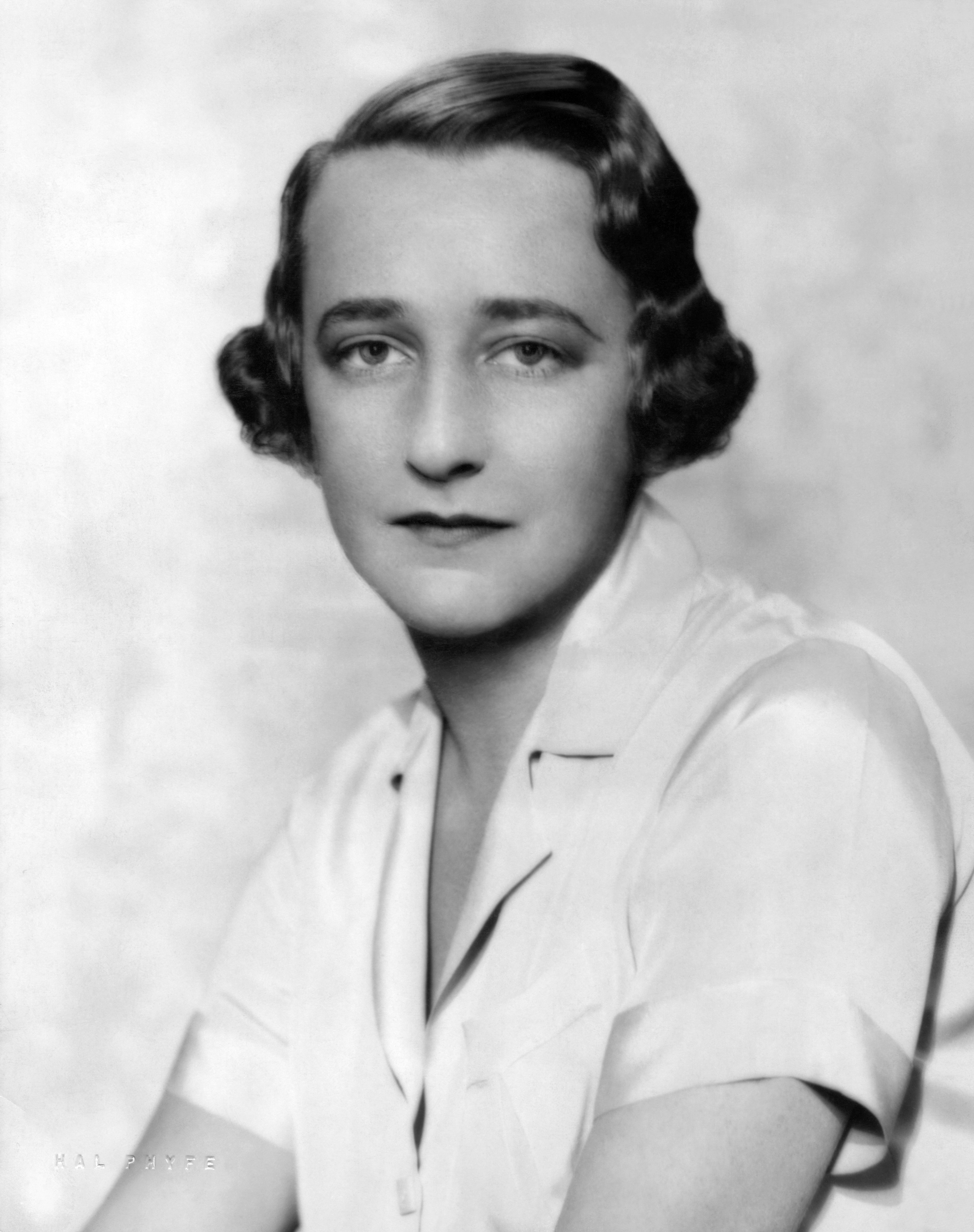 Promotional portrait of Lillian Hellman, author of The Children's Hour